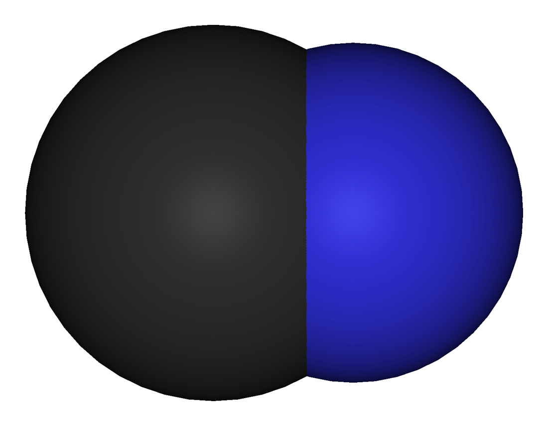 Space-filling model of the cyanide ion, CN−